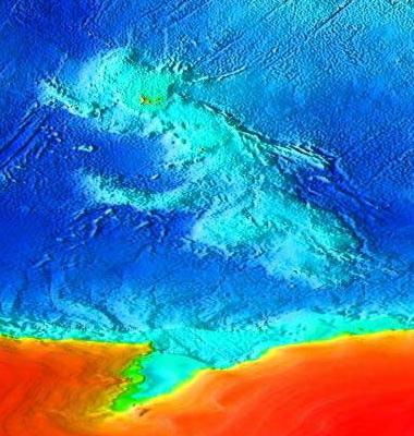 Topographical map of the submerged Kerguelen continent.